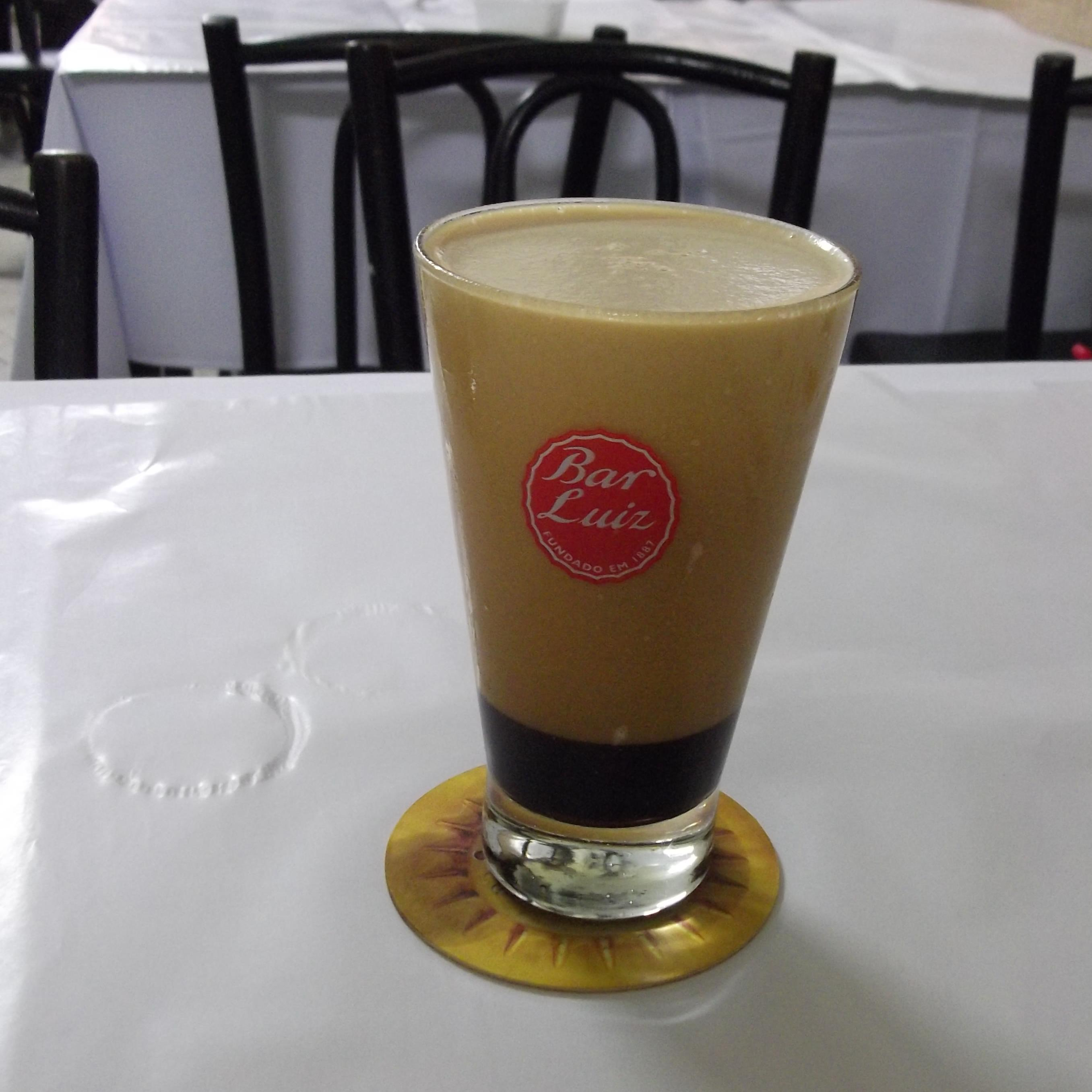 Bar Luiz, a pub in rio de Janeiro city established in 1887.